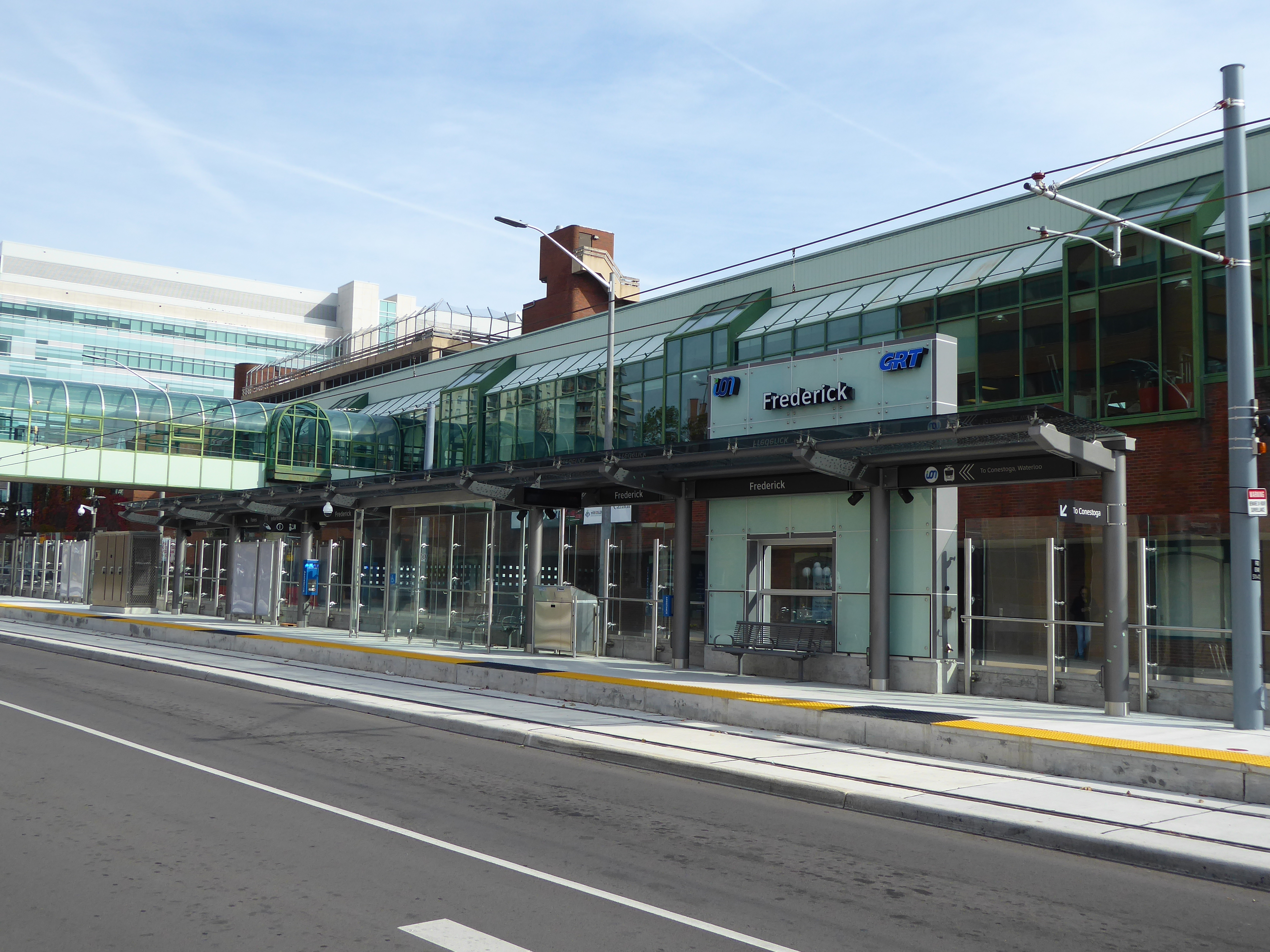 Frederick Station of the Ion rapid transit system, photographed structurally complete October 2017